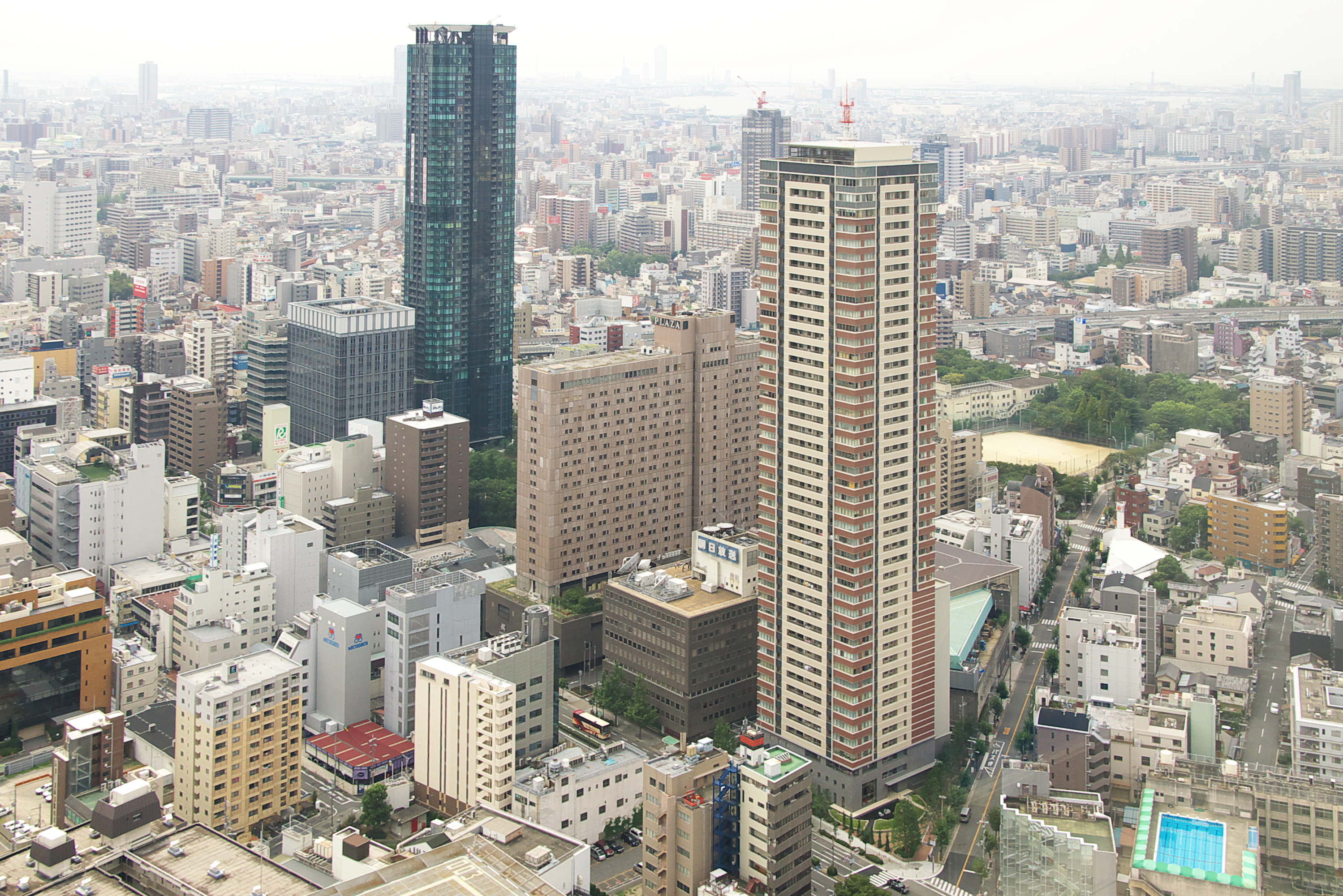 Photograph of aerial view of ABC Center, including the former headquarters of Asahi Broadcasting Corporation, in Kita-ku, Osaka, Osaka Prefecture, Japan, taken from the observation deck of Umeda Sky Building.